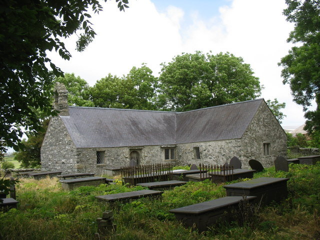 Llantrisant Old Church, Llantrisant, Isle of Anglesey/Ynys Mon, Wales. This scene has hardly changed since the mid-19thC.